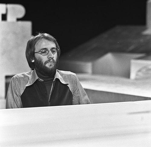 Maurice Gibb (Bee Gees) in AVRO's TopPop (Dutch television show) in 1973